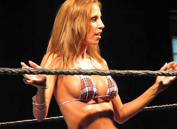 Francine drops her robe as she competes with Kelly in a bikini contest on September 30, 2006 at the Wallace Civic Center in Fitchburg, MA